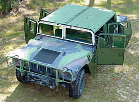 Four-door M1123 Troop/Cargo Carrier equipped with the Marine Armor Kit. The MAK is also compatible with the two-door M1123 and the M1097A2 Shelter Carrier.